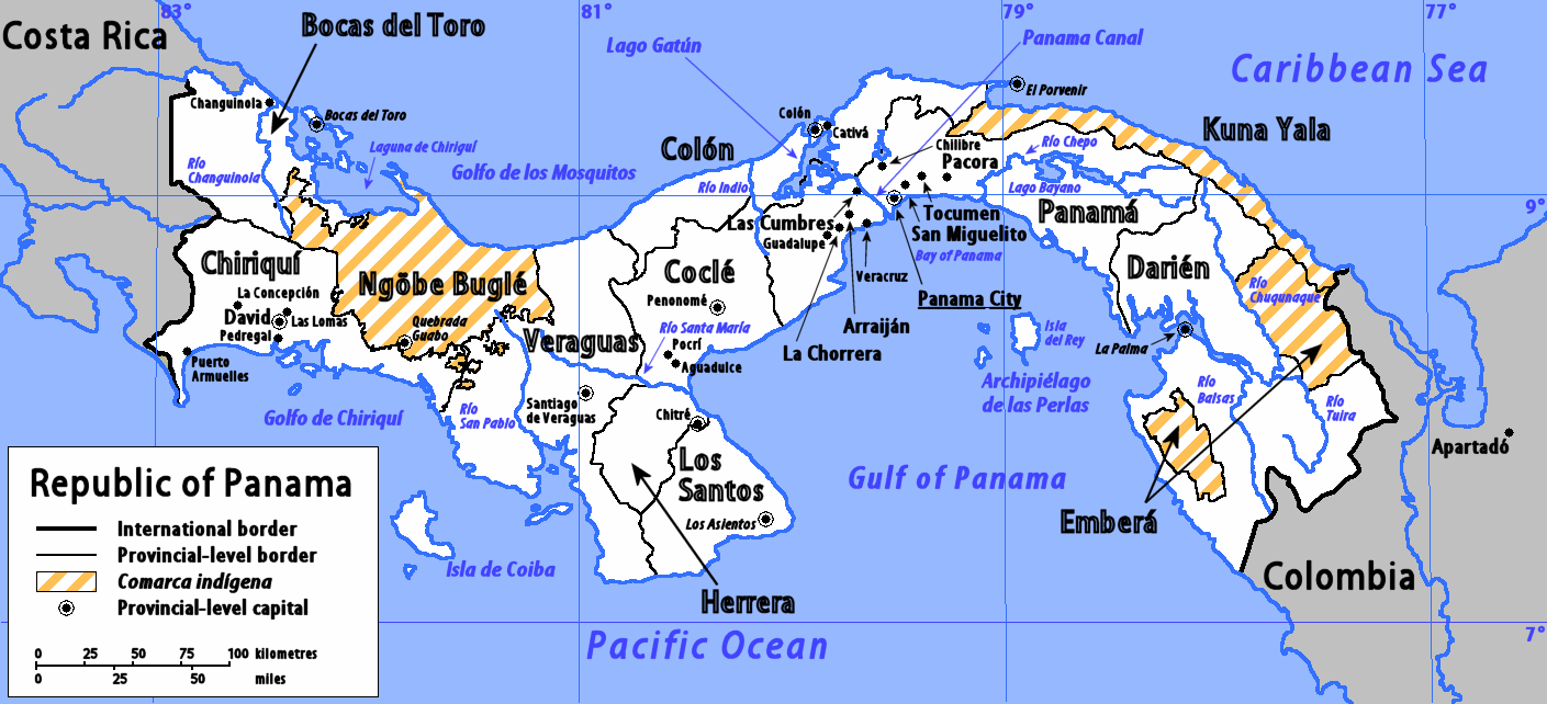 The map shows the provinces and three comarcas with provincial status. The two comarcas that don't have provincial status (Kuna de Madungandí and Kuna de Waragandí) are not shown. All provincial and comarcal capitals are shown with a circled dot, with the exception of Unión Chocó (the capital of Emberá), which I was unable to find on any map to which I had access. Note that the position of Quebrada Guabo is approximate. All towns and cities with a population greater than 10,000 are shown on the map, unless in very close proximity to a larger town or city. Towns and cities with population greater than 50,000 are shown with their names in a larger size. Some of the provincial/comarcal capitals have a smaller population than 10,000 and have their names in italics. Outside of the Republic of Panama, only towns with a population larger than 50,000 are shown. The national capital is indicated with its name underlined.